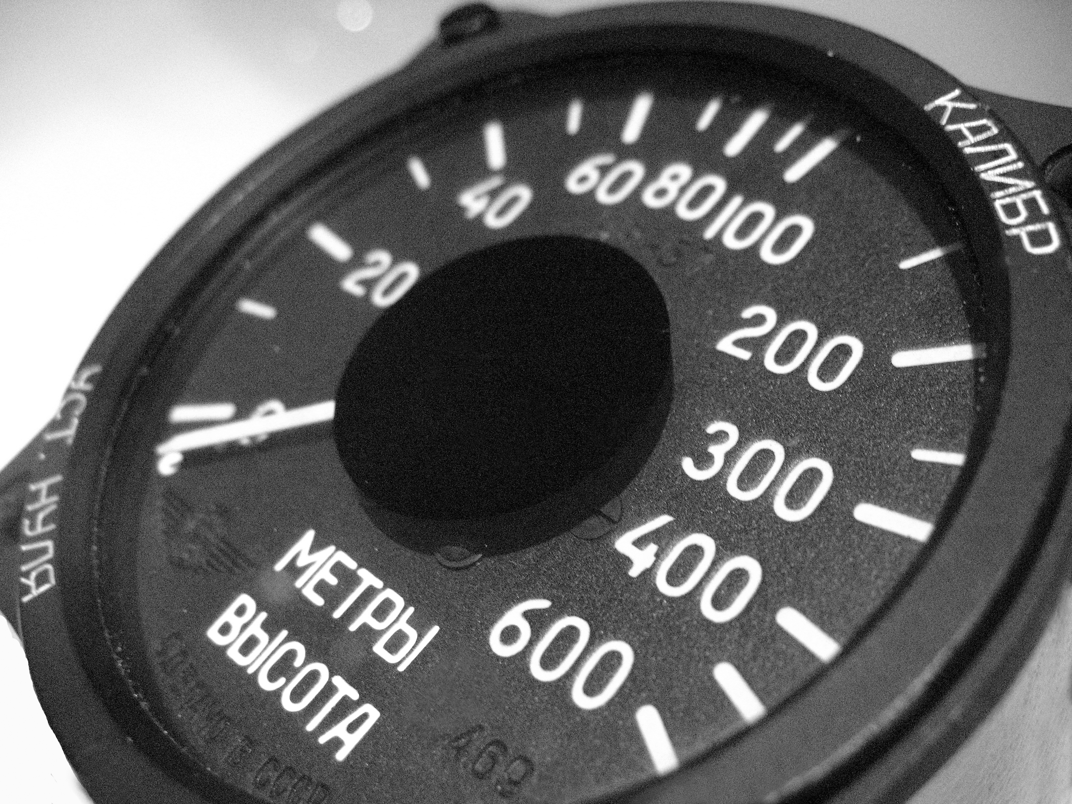 + 00000000001_Image_MIG 21 - Aircraft Cabin Altimeter Indicator - 0-600 m